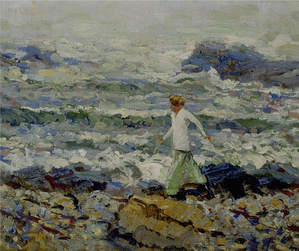 Walking along the Shore by Walt Kuhn, ca. 1910, oil on canvas, 20. x 24 in.; 50.8 x 60.96 cm., Herbert F. Johnson Museum of Art